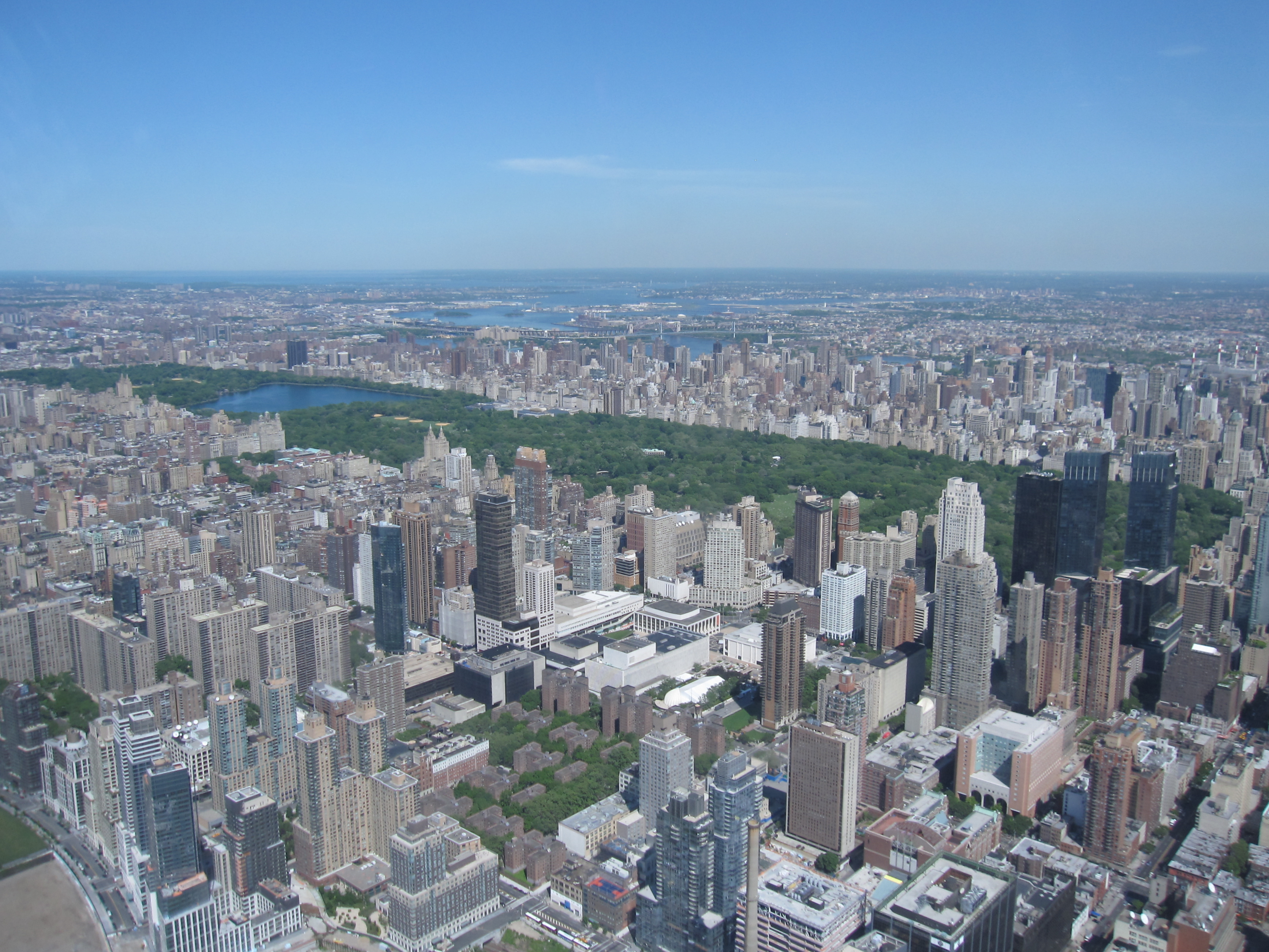 Central Park